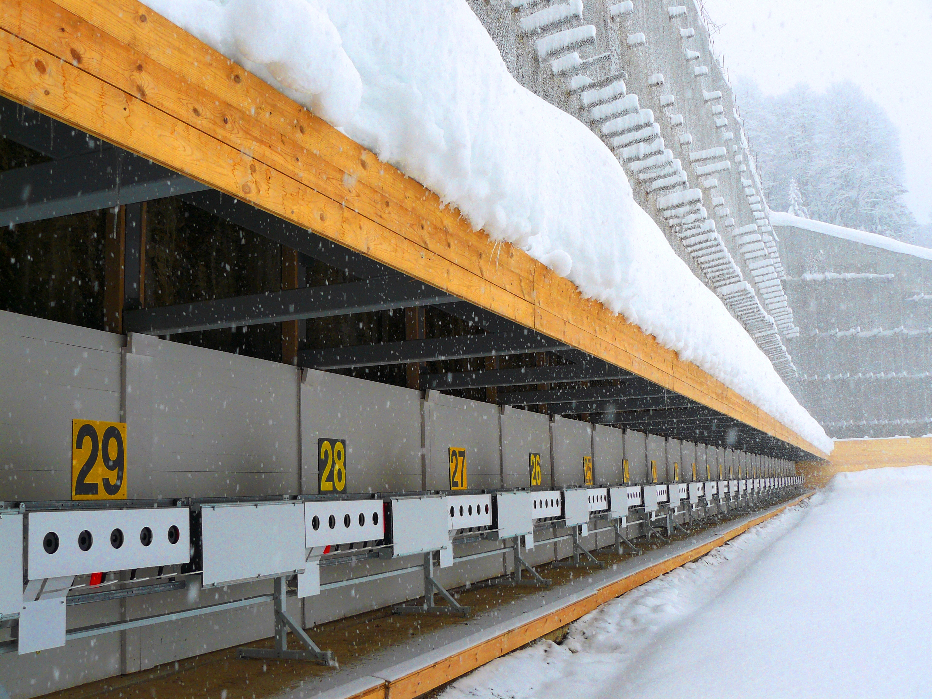 Biathlon shooting range